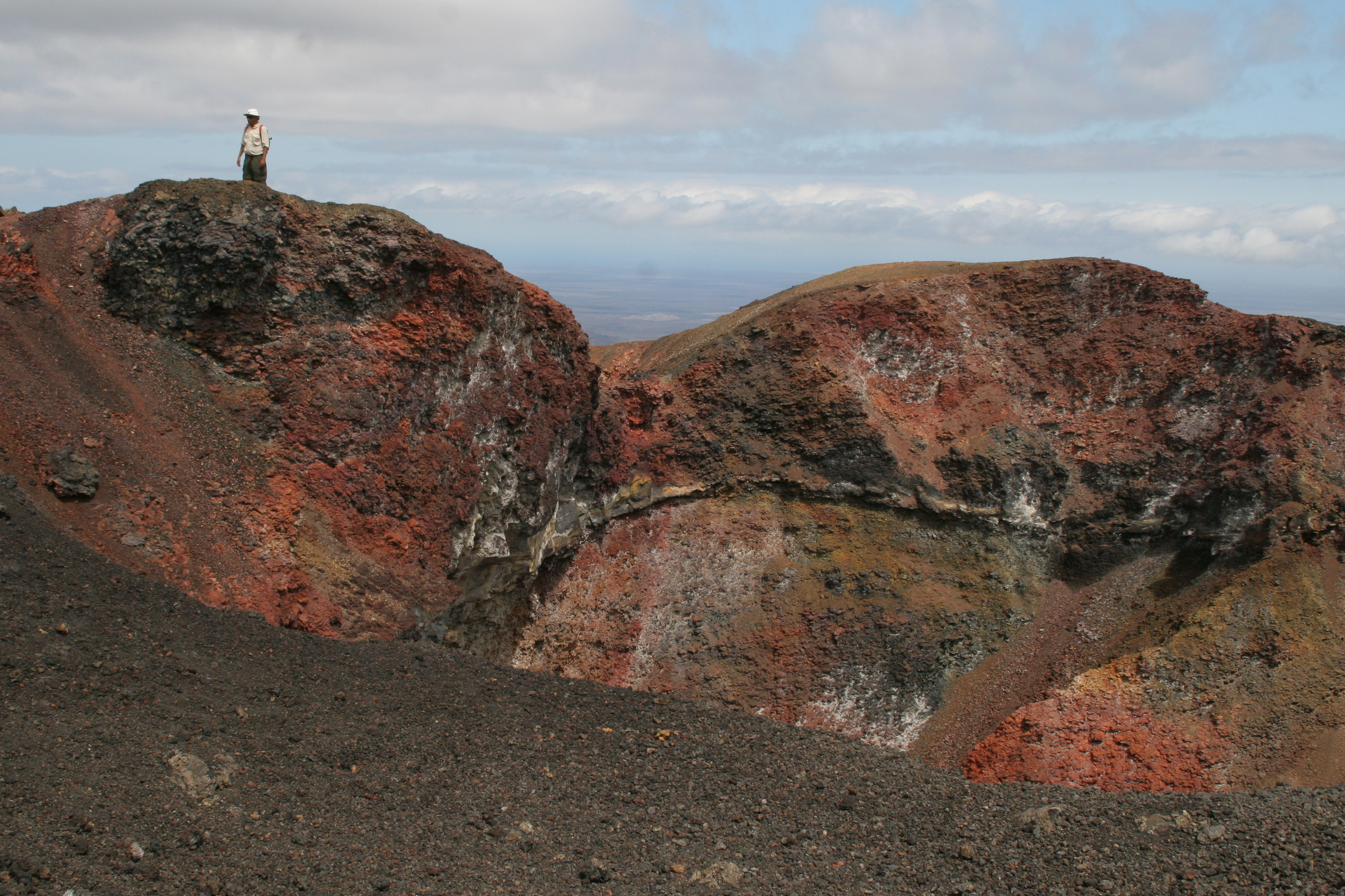 The slopes of Sierra Negra Volcano are first misty, then crystal clear as we hike across into lava floes from eruptions in 1970s, 80s and most recently, 2005. Element of the volcan chino which is on the side of the Sierra negra volcano.